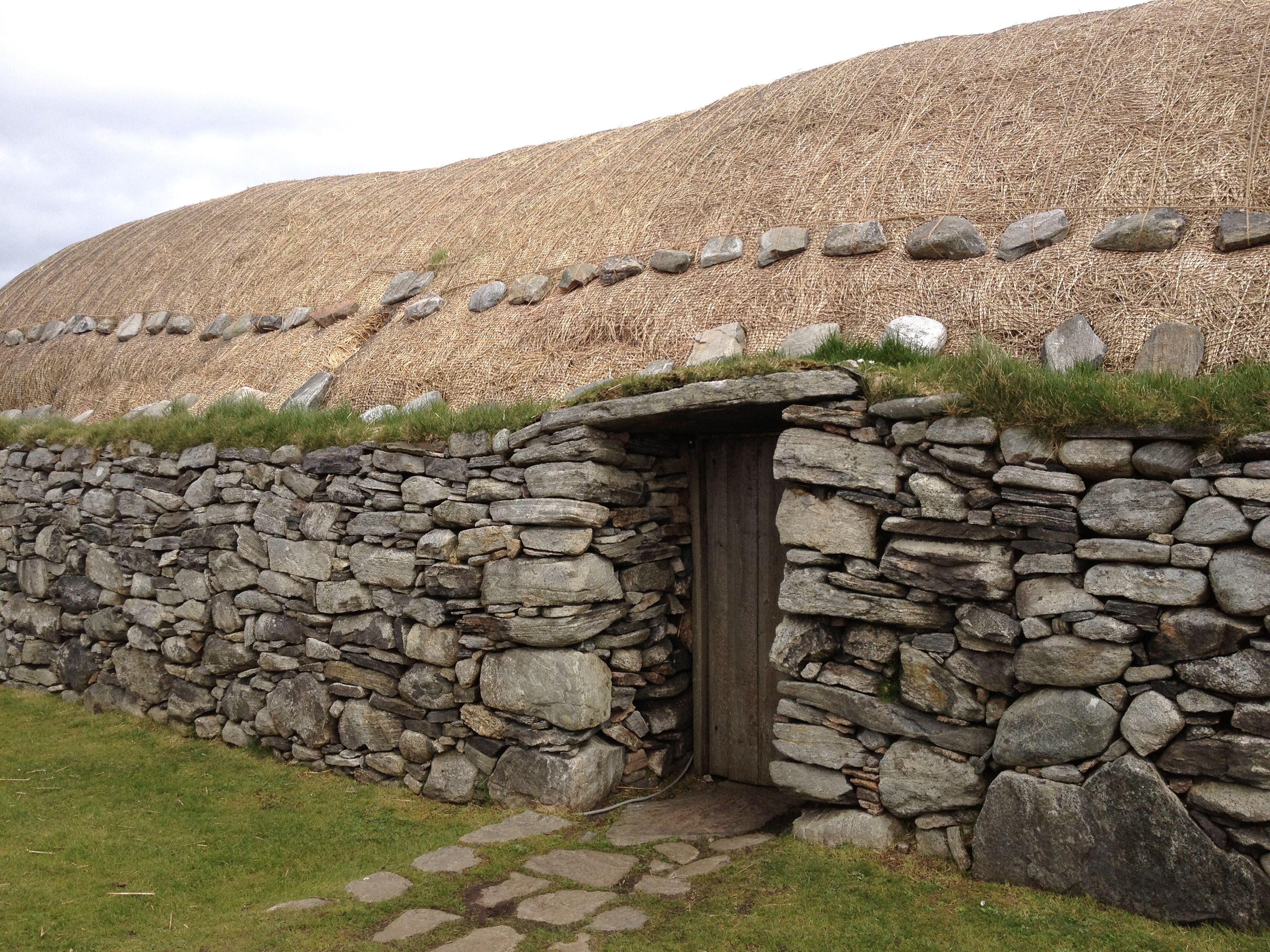 Arnol Blackhouse Wikidata has entry Q15958279 with data related to this item.